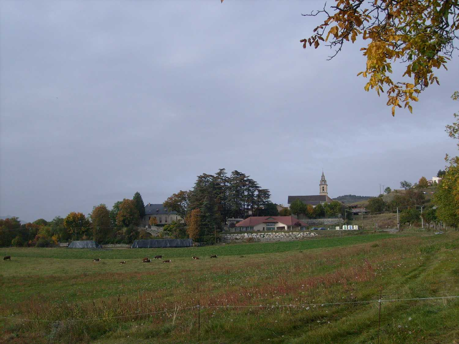 View over the southern part of the village( Jarjayes, Hautes-Alpes)